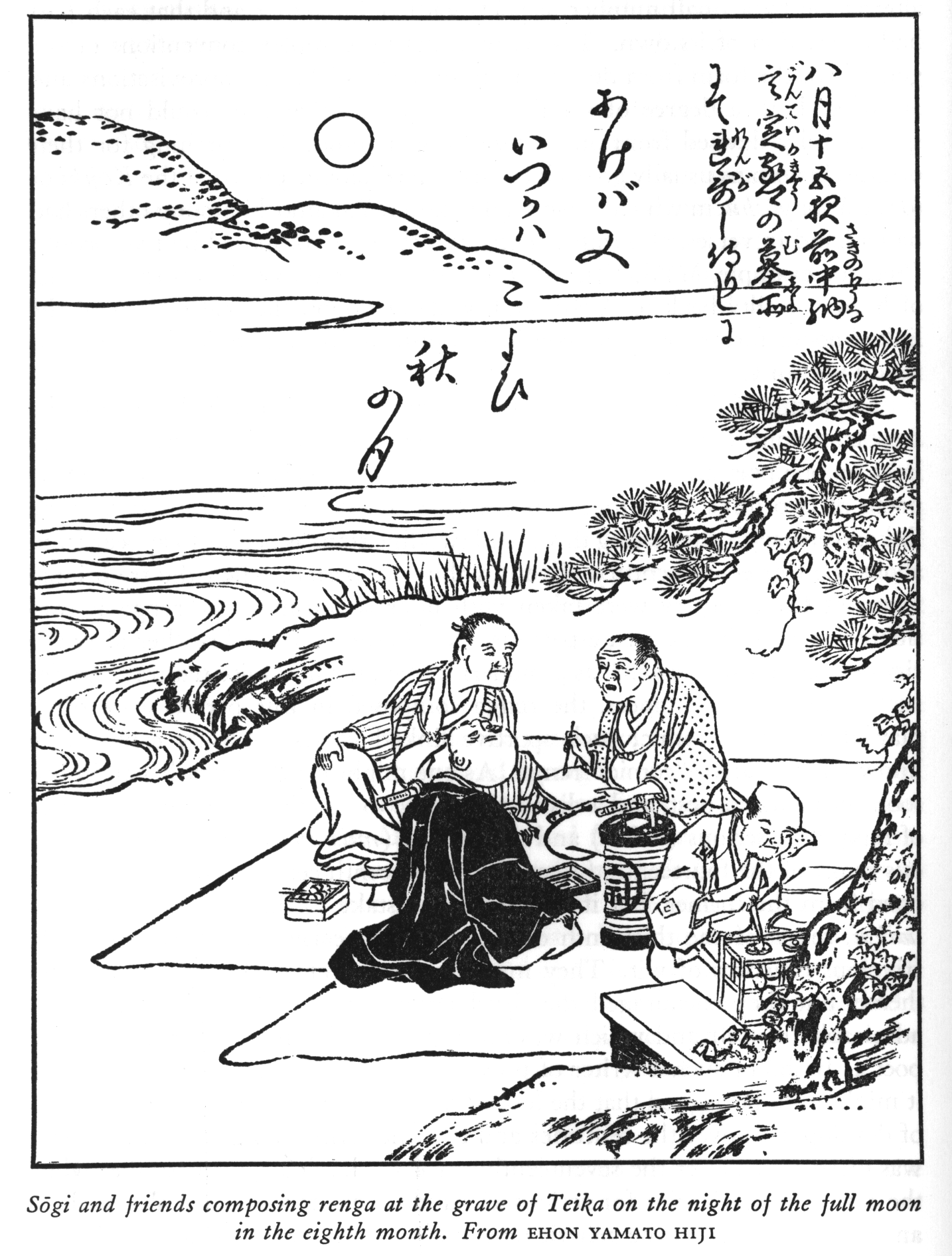 An image of the poet Sogi and friends honoring Teika's grave.